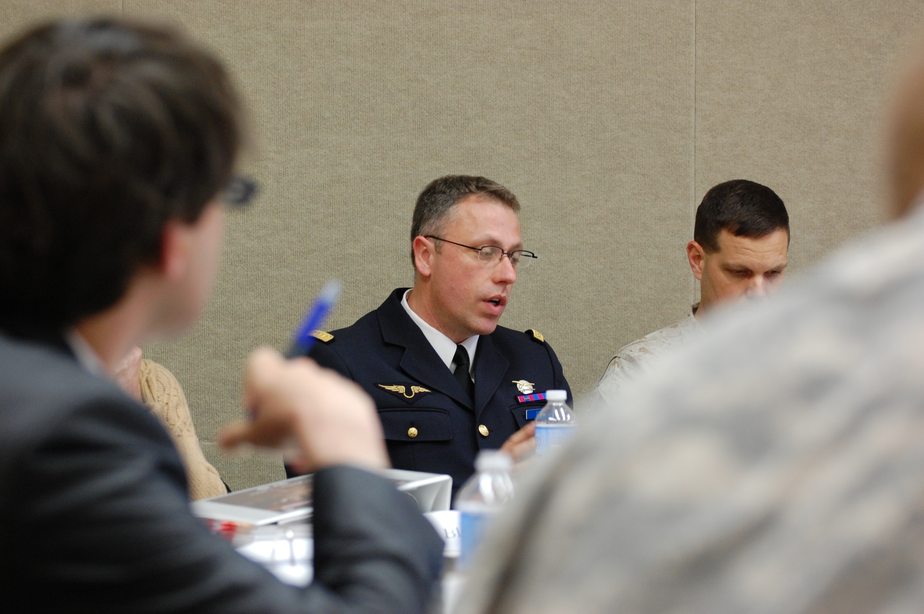 Emmanuel Goffi in Quantico, Virginia in 2012